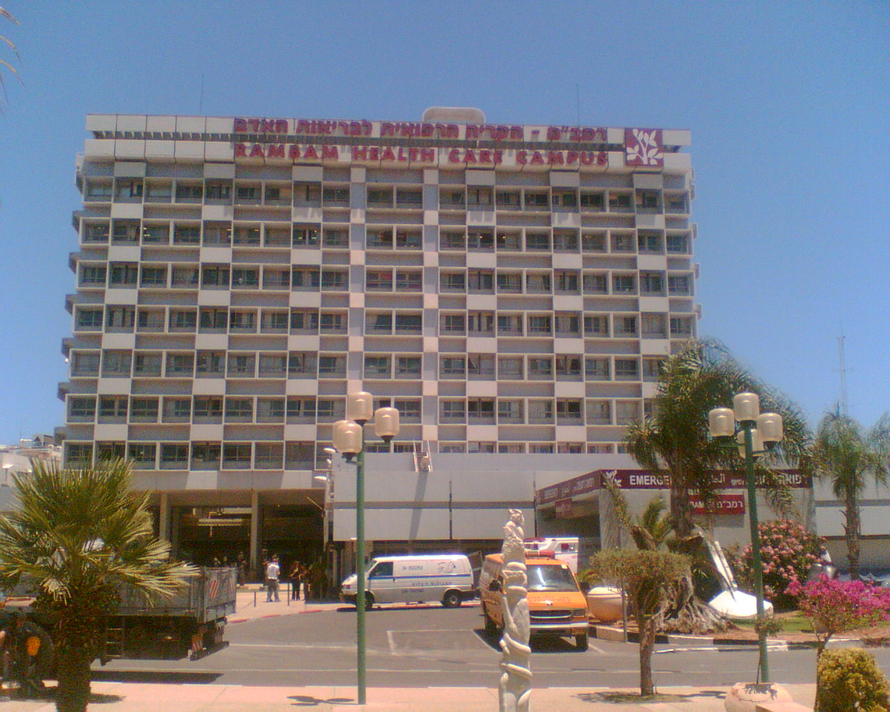 Rambam Health Care Campus, Haifa, Main Building